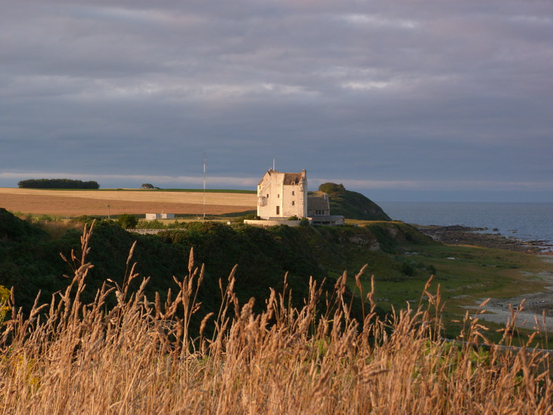 Evening light at Ballone Castle